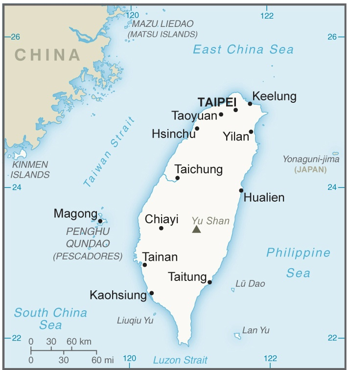 Shows island of Taiwan, smaller islands under ROC control, adjacent water bodies, point of highest elevation, major towns labeled